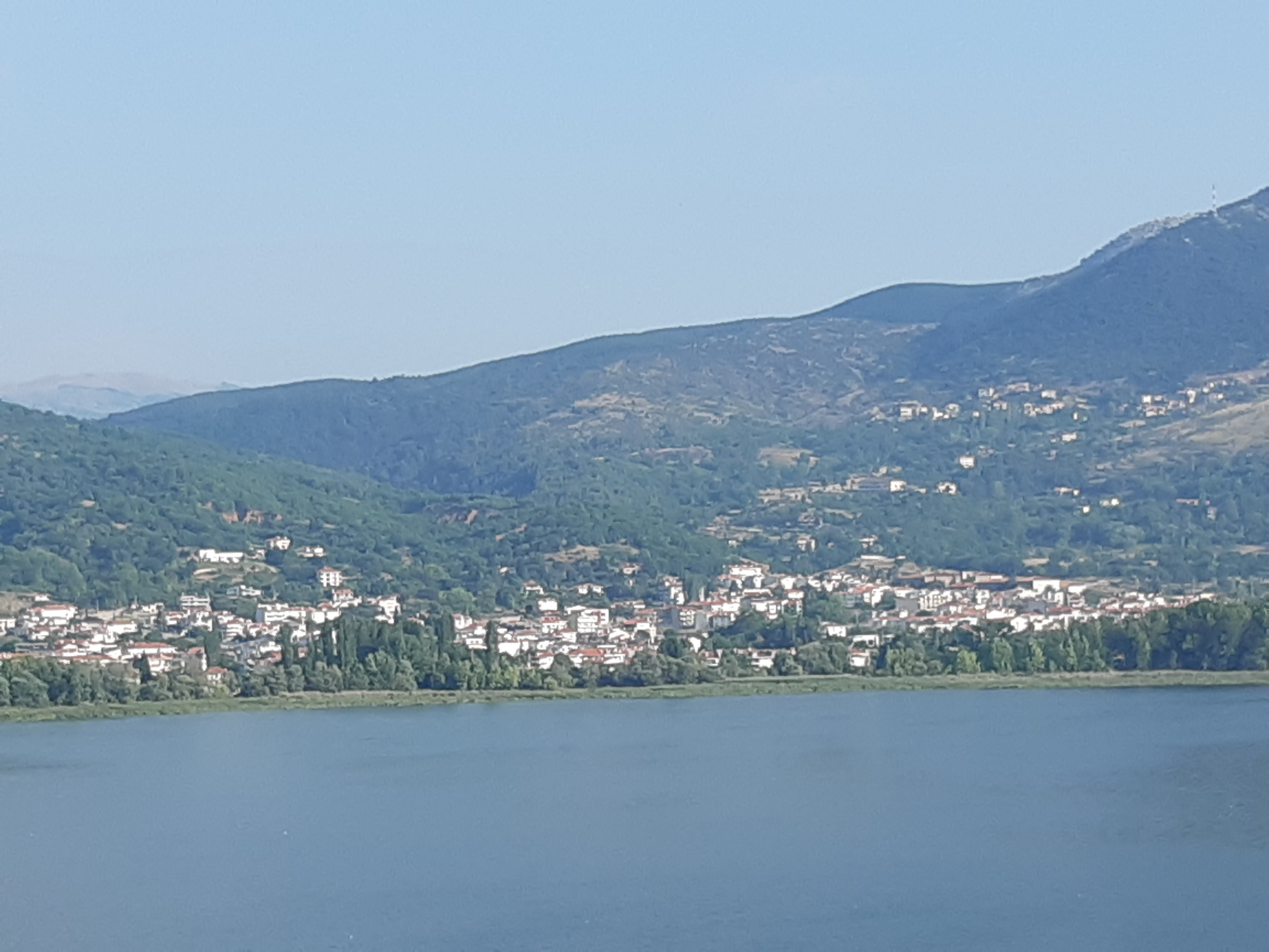 Chloi from Kastoria